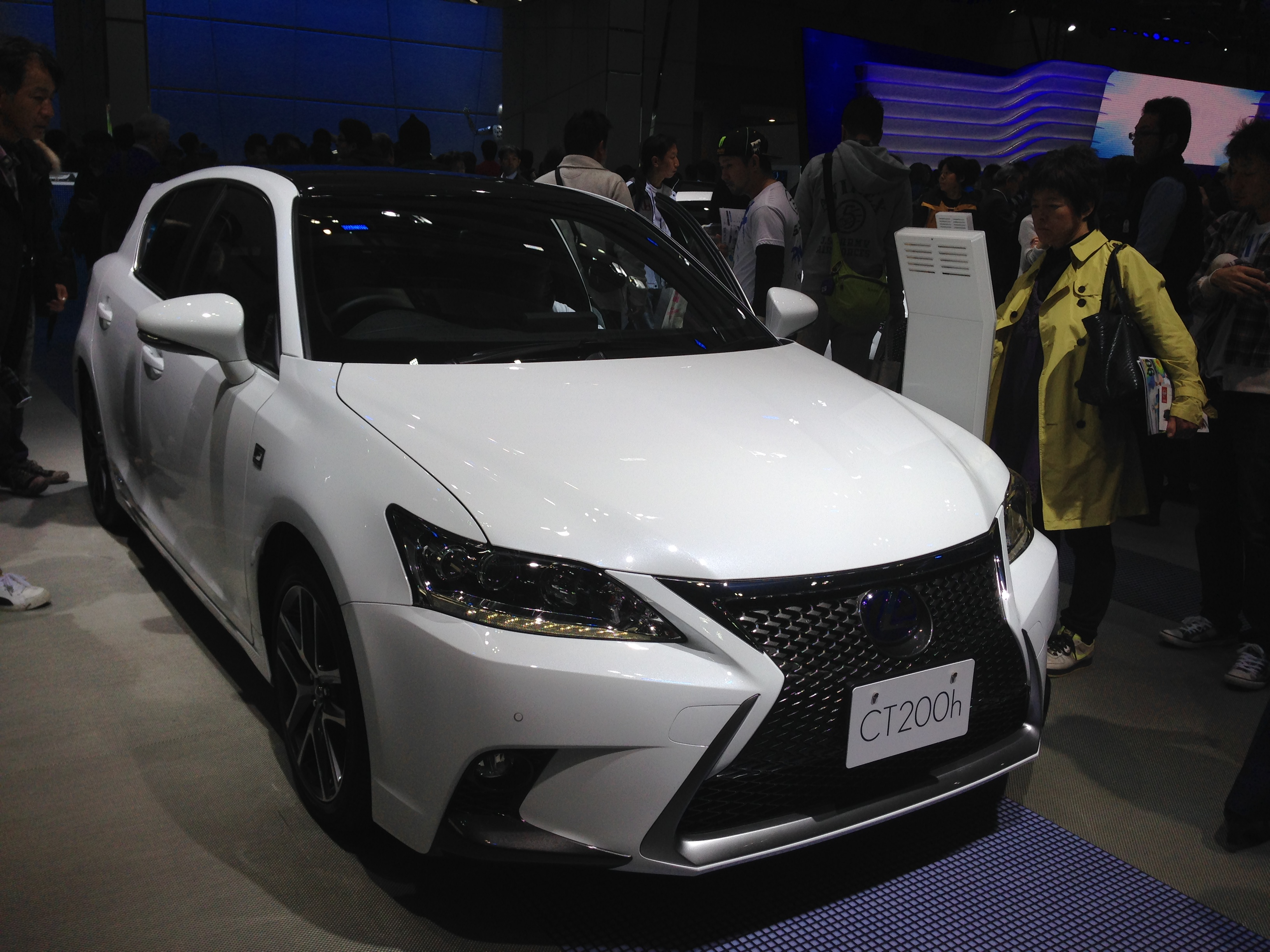 Lexus CT 200h photographed at the Tokyo Motor Show 2013.